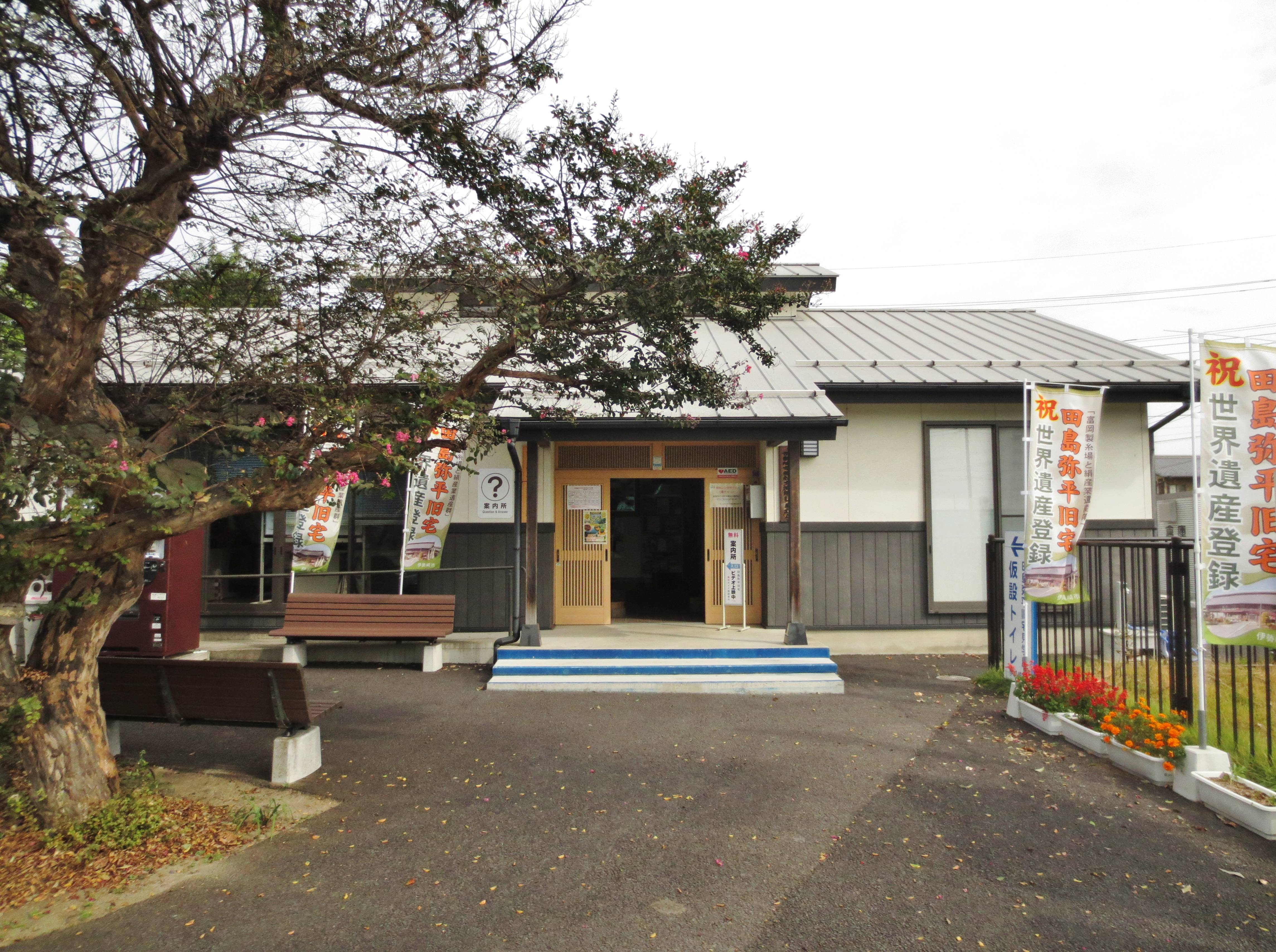 Tajima Yahei Sericulture Farm information center.